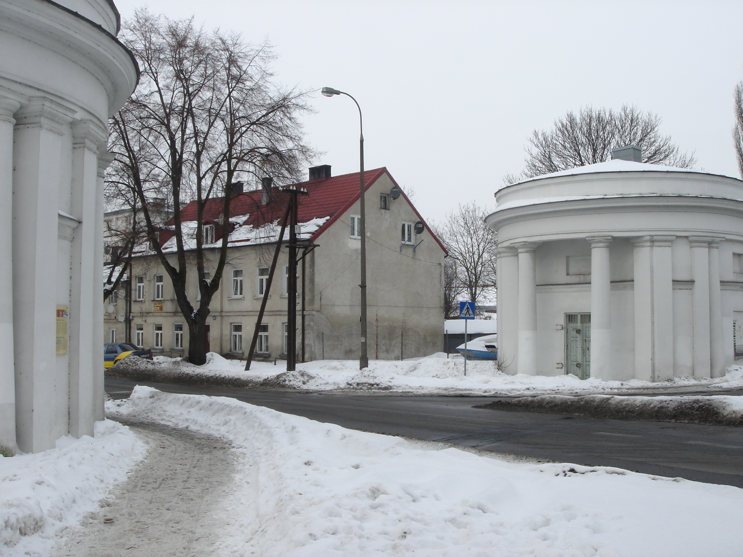 Toll Gates called Urban. Dobrzynski in Plock. Views February 14, 2010.